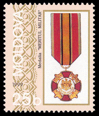 Stamp of Moldova, 1999